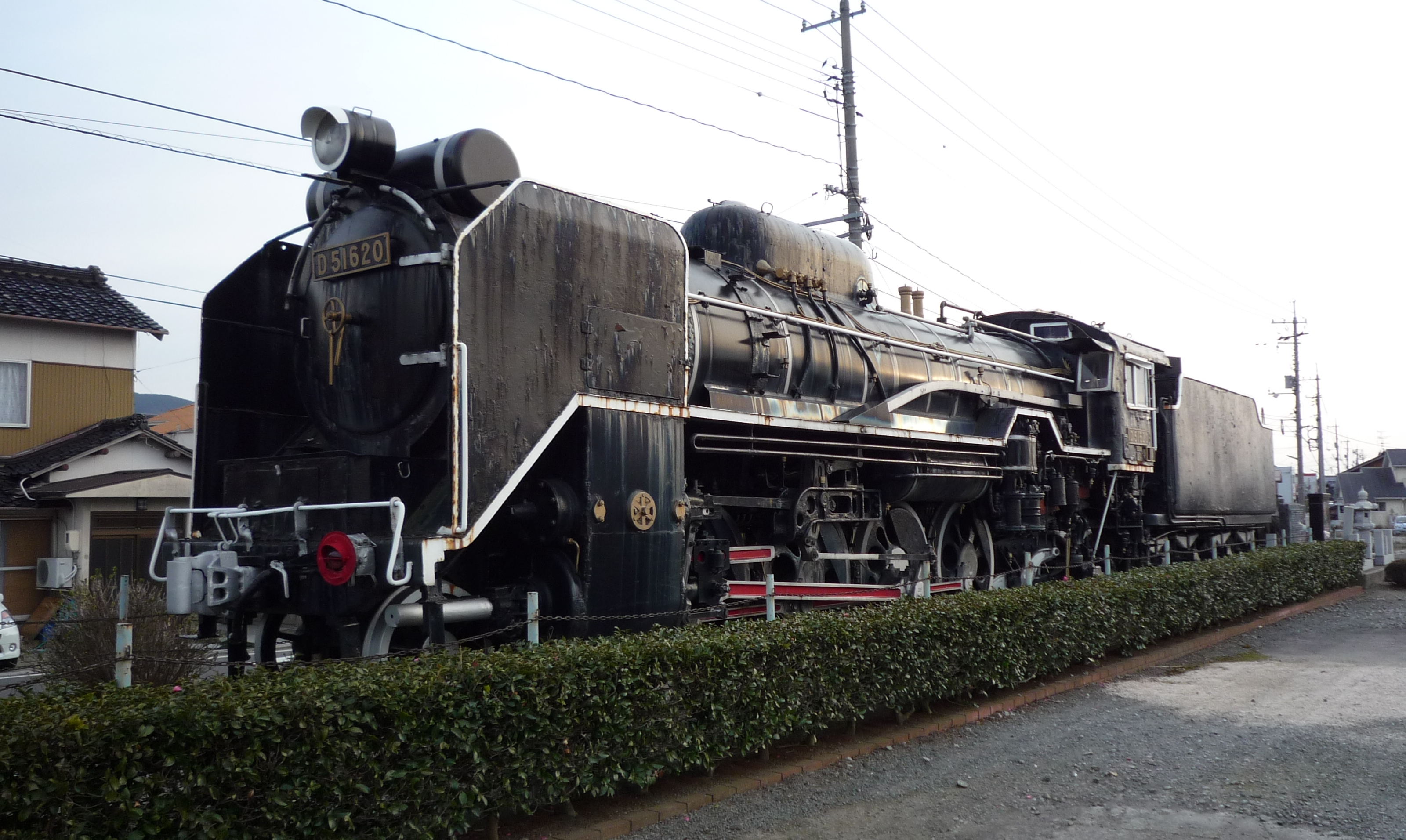 D51-620, was stored until Nov. 2009 static condition at Daisenguchi Station, Daisen Town, Tottori Prefecture, Japan.